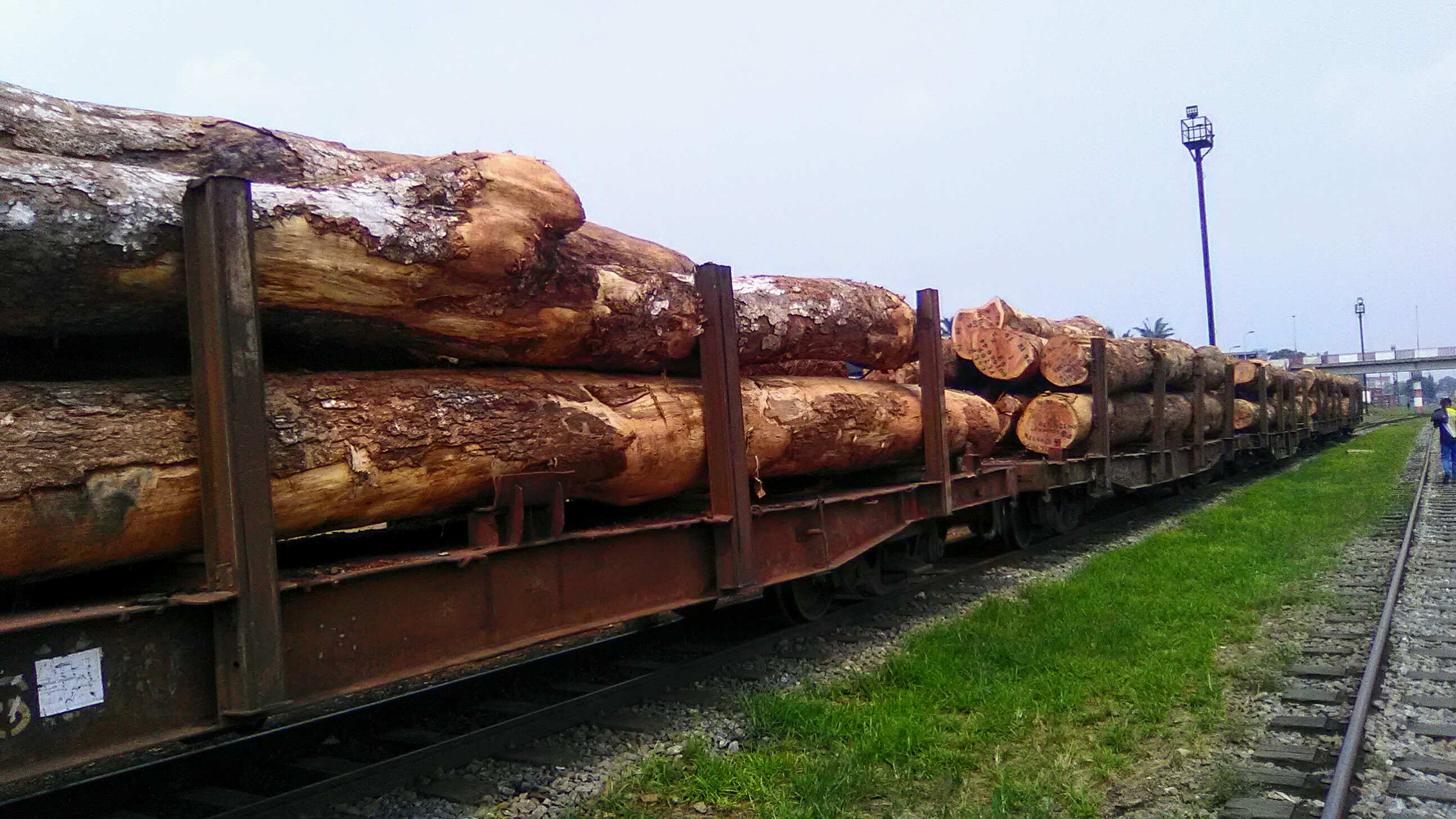 This is an image with the theme "Africa on the Move or Transport" from: Cameroon